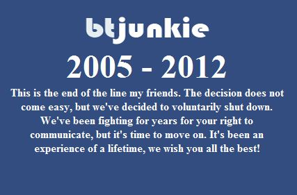 Btjunkie finished his activity.